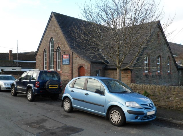 Church of St Mary and St James, Taffs Well. Church in Wales church located on Church Street, near the Cardiff Road junction.